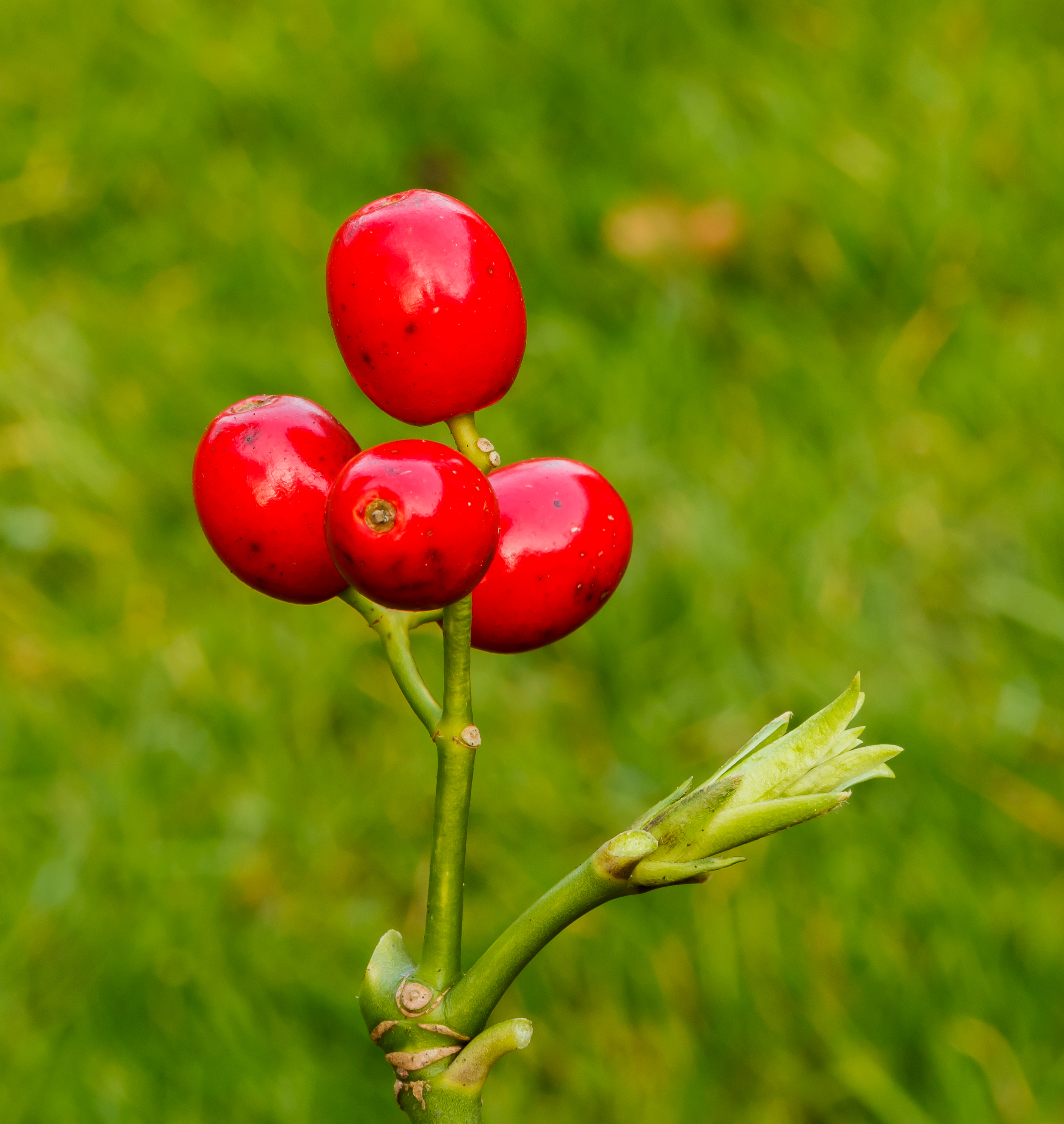 berries van Aucuba japonica. Location. Garden sanctuary JonkerValley.